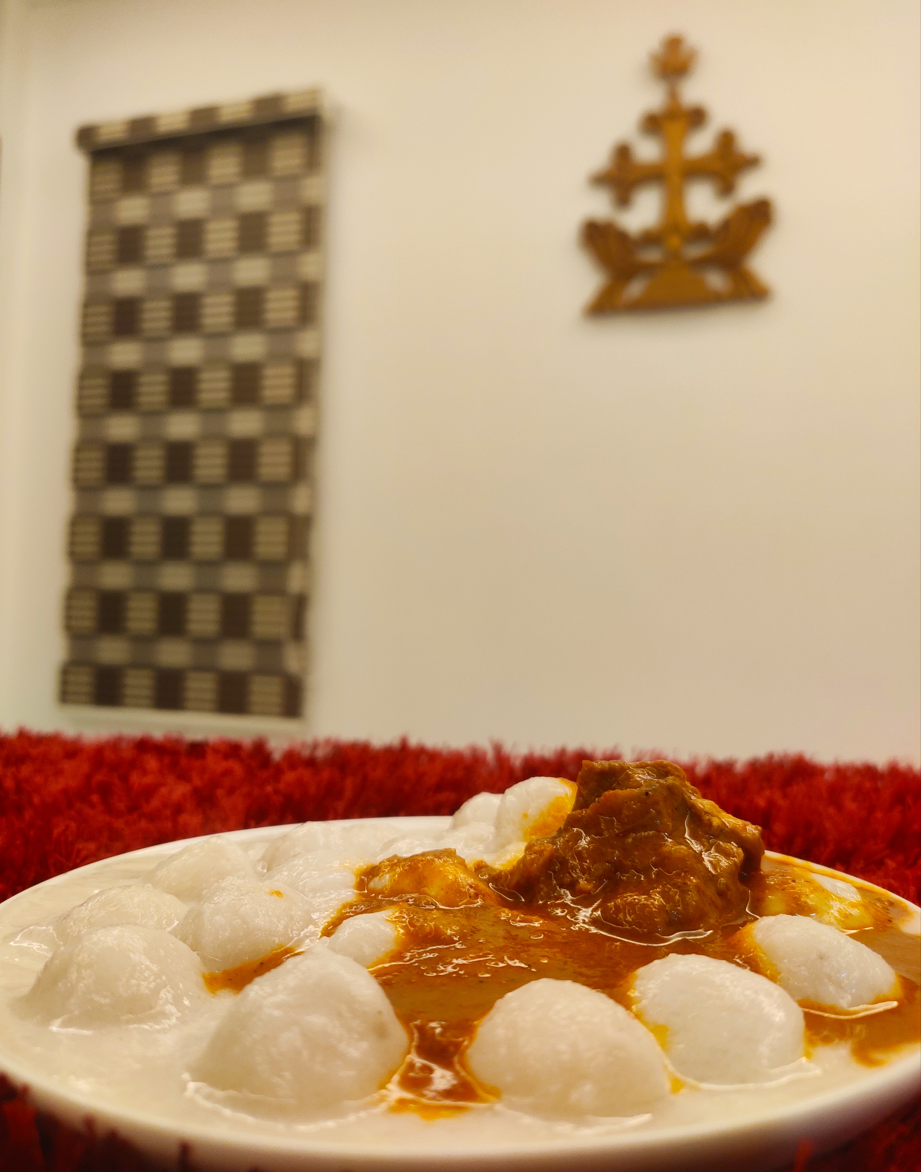 Pidi and Kozhi are prepared by Saint Thomas Christians during festivals and other important days.